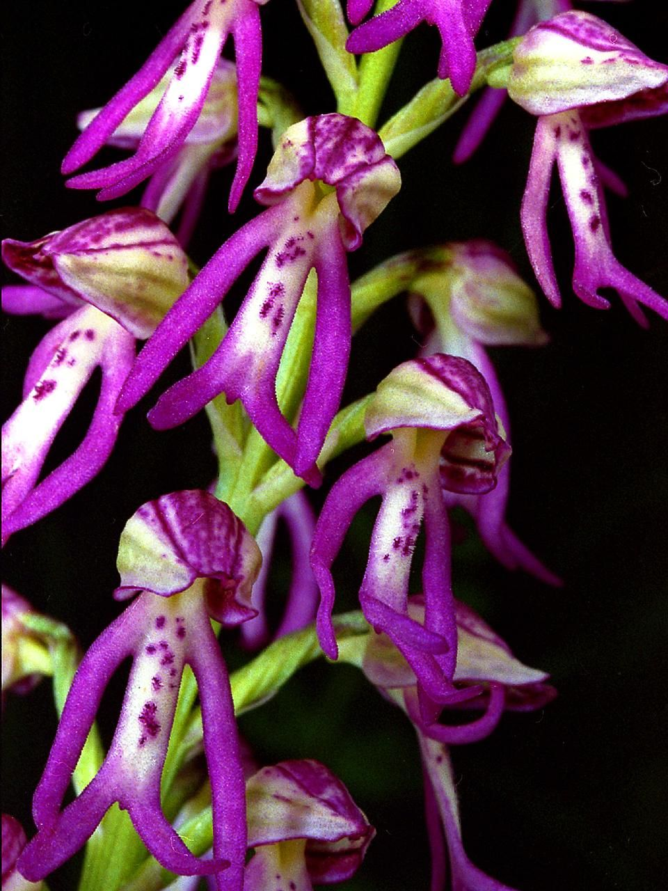 Orchis × spuria